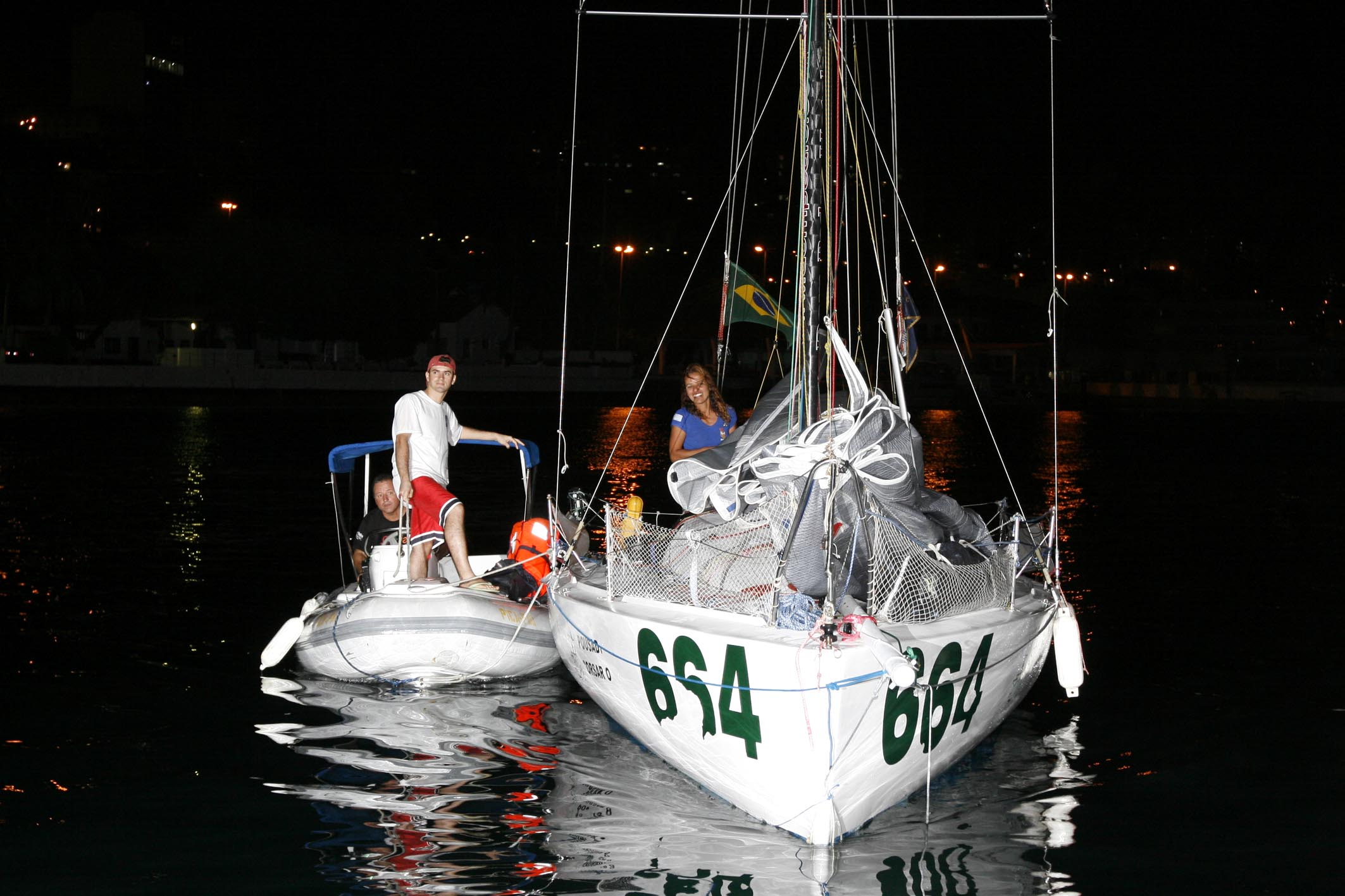 Brazilian sailor woman Izabel Pimentel on the arrival of the regatta Charente-Maritime/Bahia